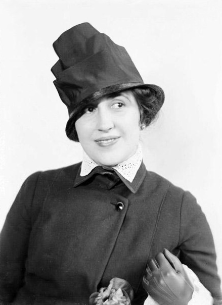 Portrait of Rita Jolivet